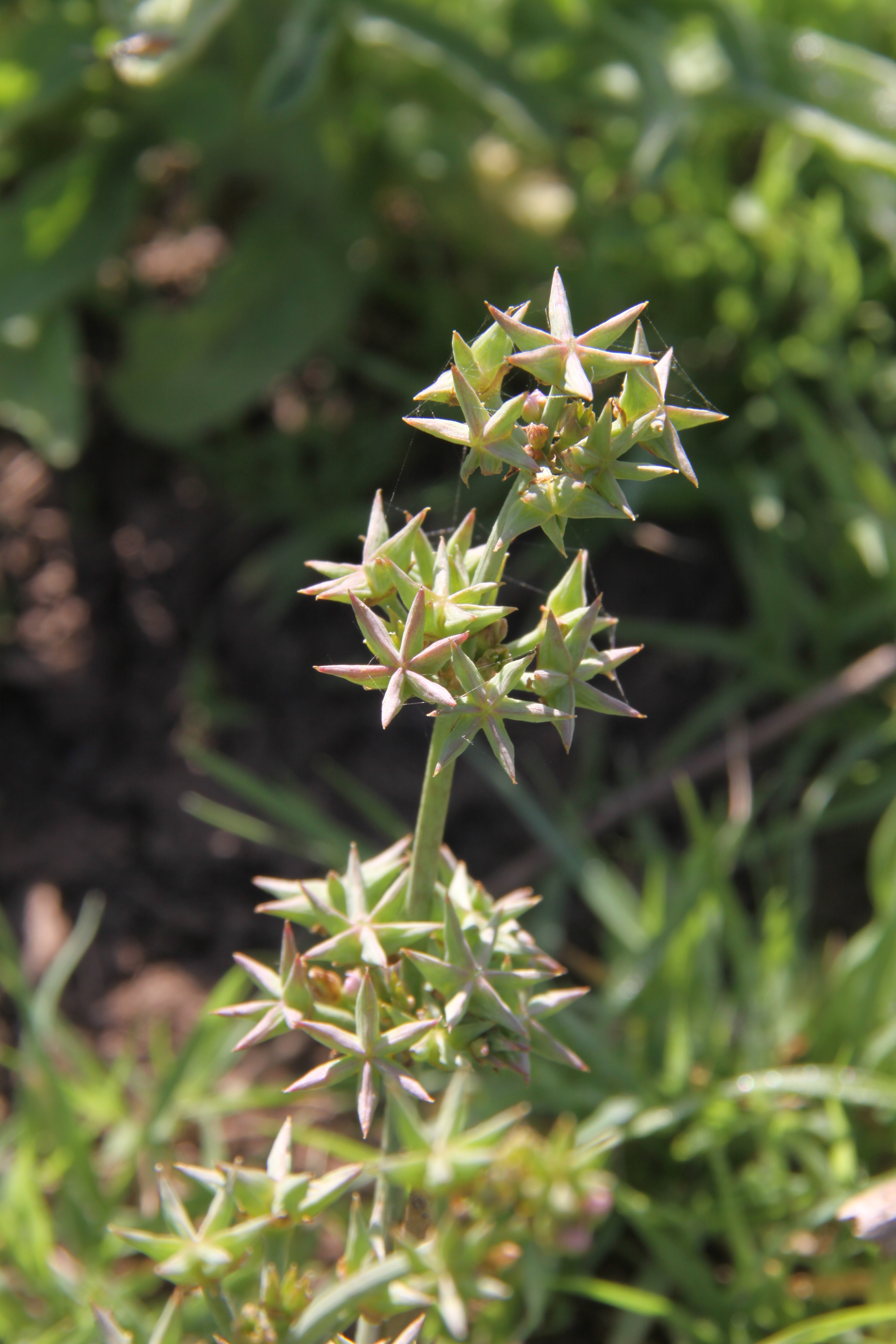 Fruits of Damasonium alisma. Taken at the vernal pool in Rehovot, Israel